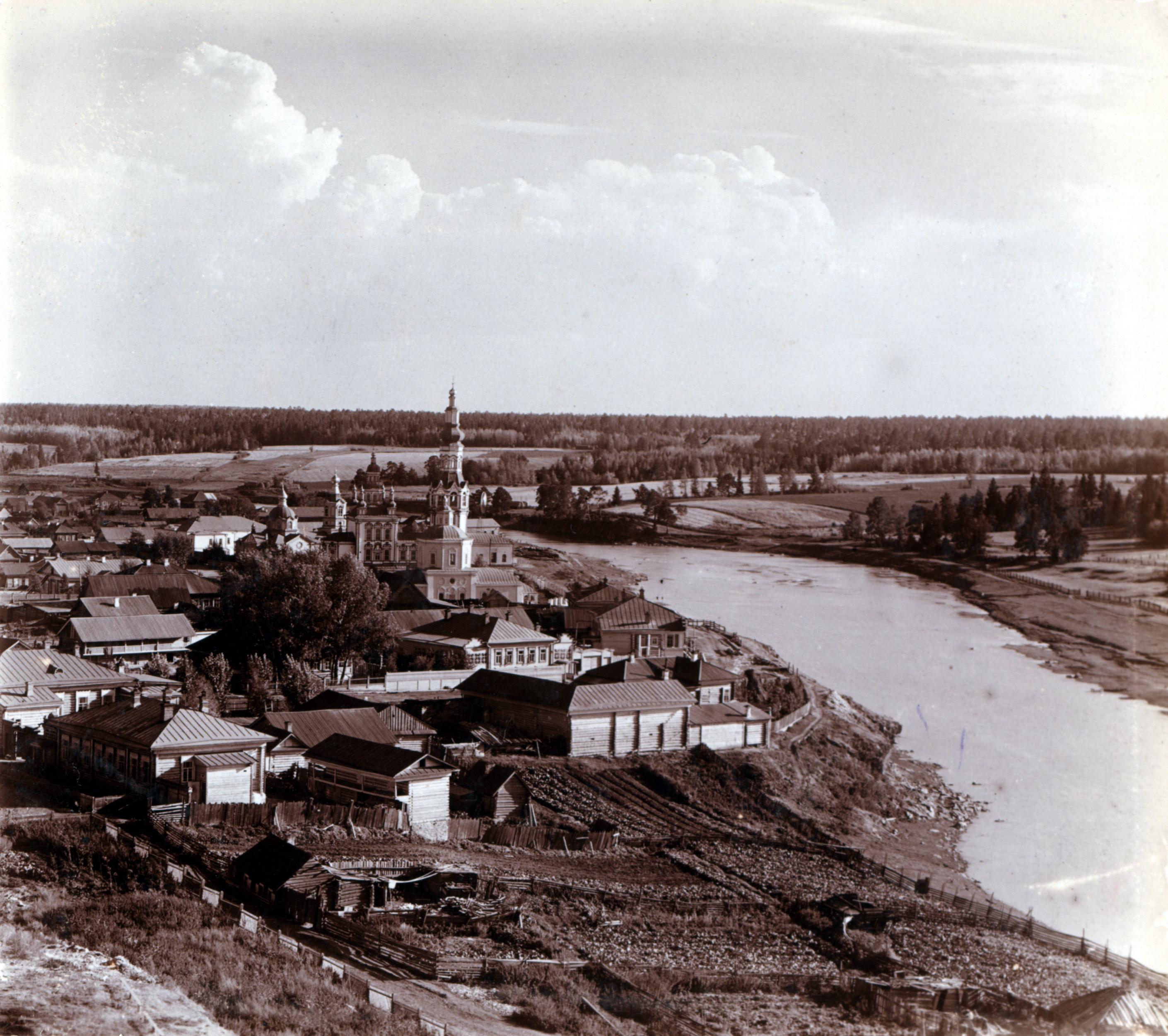 Church of Our Protectress and the monastery for women. [Verkhoture]